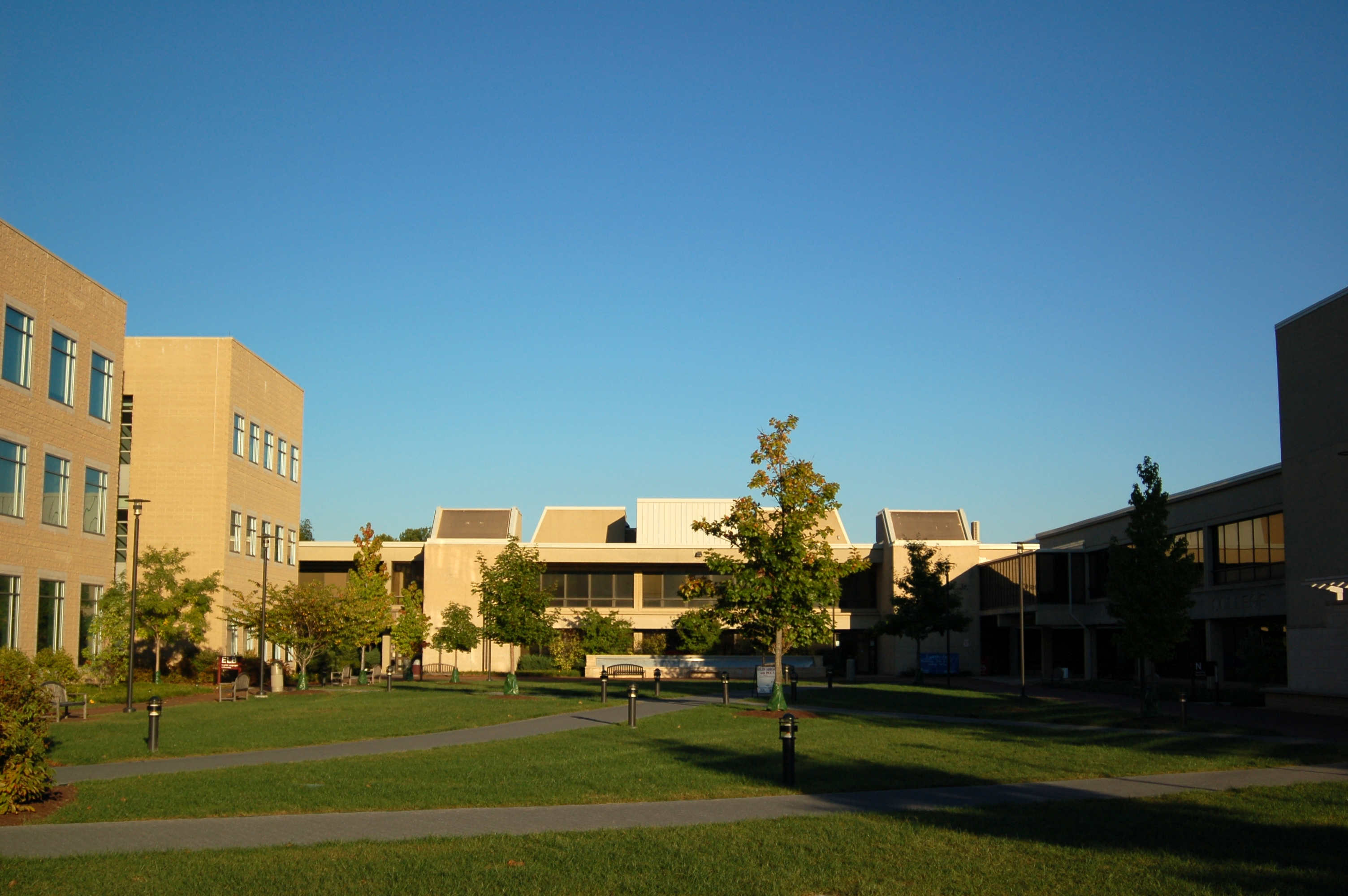 Howard Community College includes an inviting landscaped area now known as The Quad. Pictured here is the Quad with the English, Languages, and Business Building (ELB) on the left (north), the James Clark Library Building in the center (east), and the Nursing Building on the right (south).